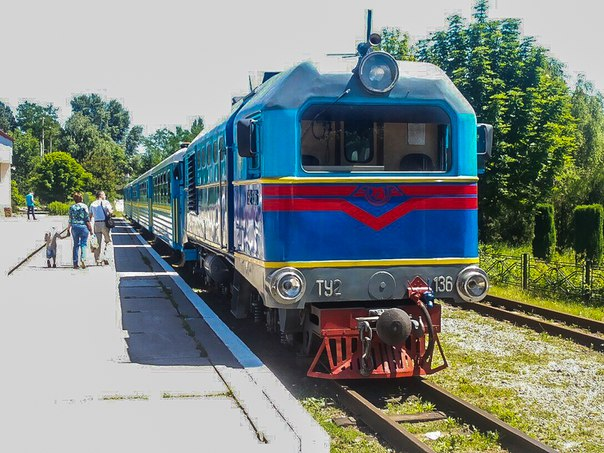 Train at the Zhovtnevaya station.